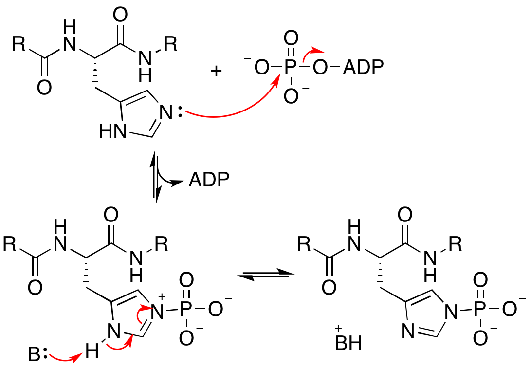 Proposed mechanism for phosphorylation of histidinyl residues by histidine kinase.